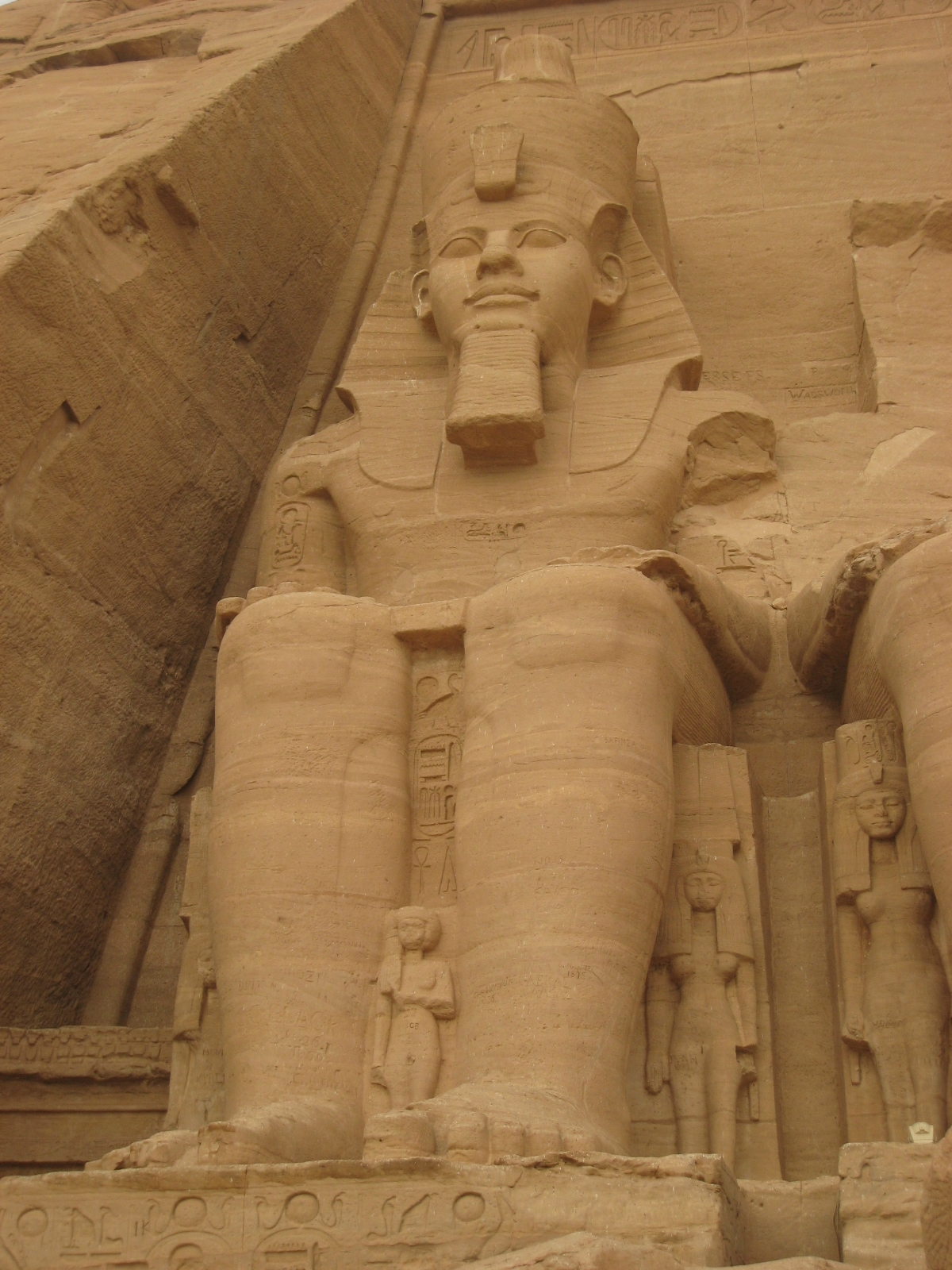 Colossal statue of Ramesses II before the Great Abu Simbel temple. The smaller statues are of his family members: fifth daughter Princess Nebettawy (half-hidden behind the right leg of the colossus), sixth daughter Princess Isetnofret, depicted as a young child (in front of the colossus), eldest daughter Princess Bintanath (at the left leg of the statue), Queen Mother Mut-Tuya, the mother of Ramesses (at the leg of the next colossus).